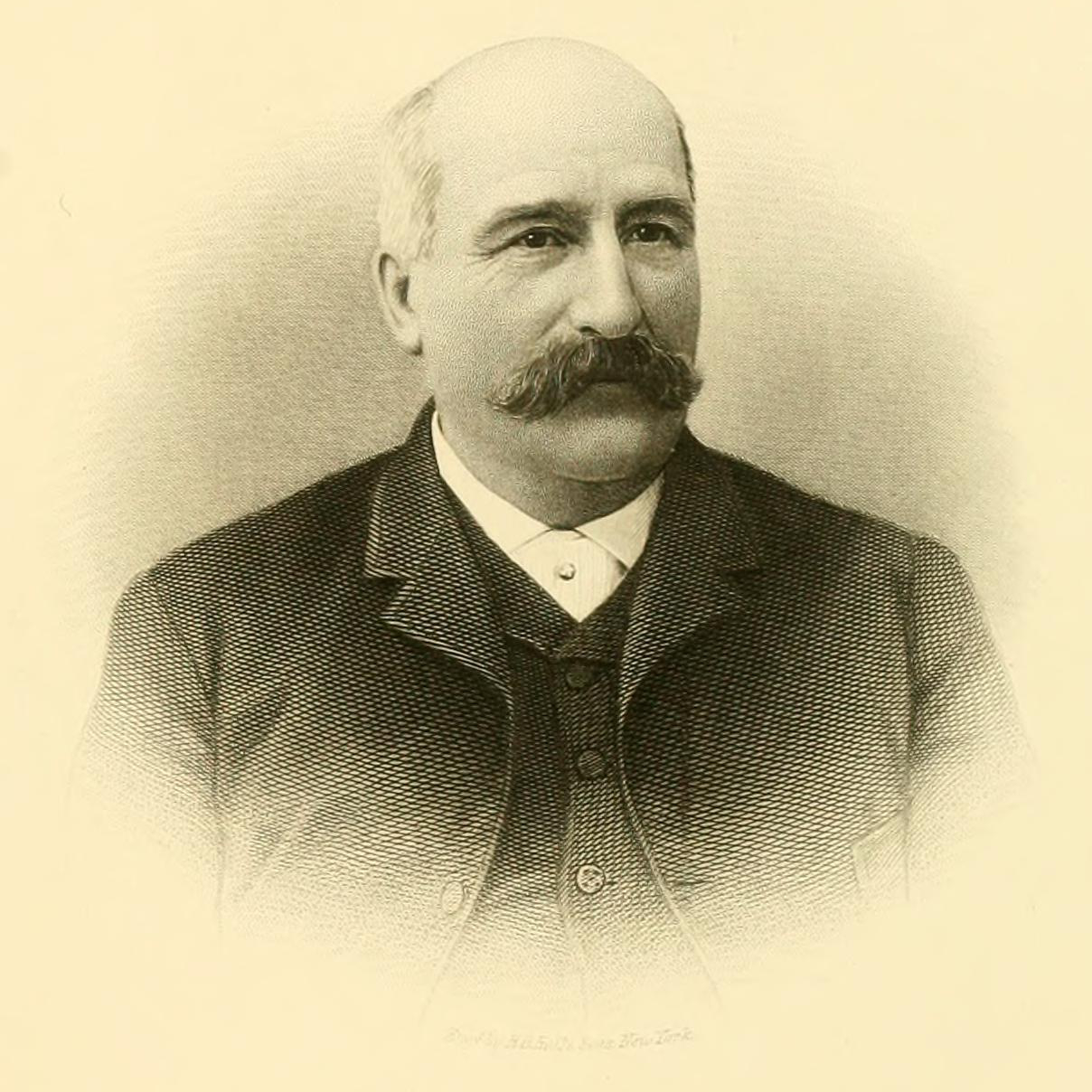 Portrait of John De Laittre.